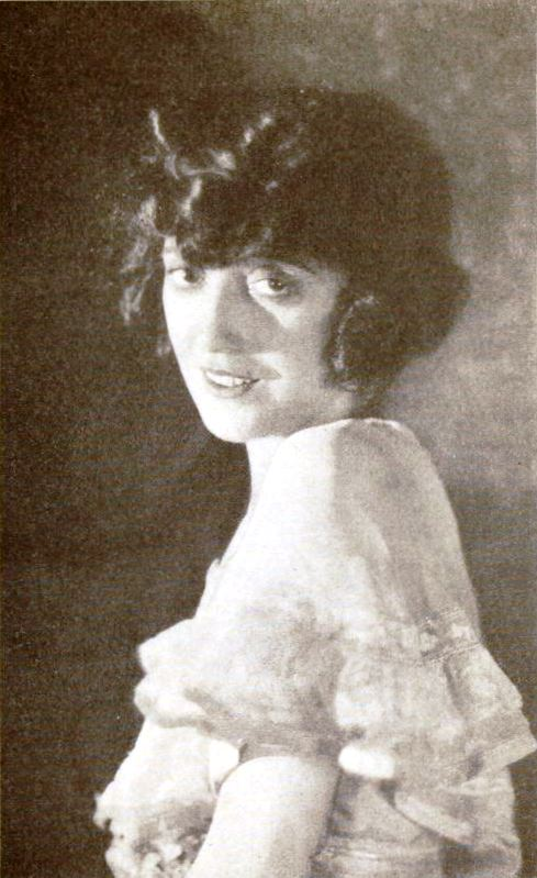 Actress Mabel Normand on page 25 of the August 1921 Photoplay magazine.